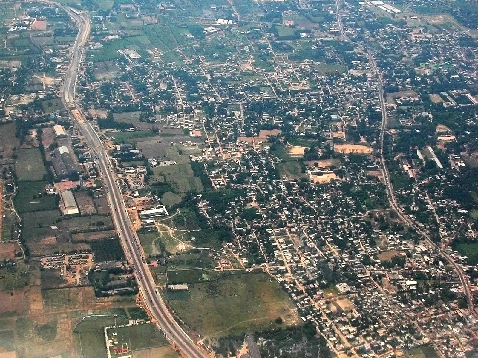 Aerial view of Poonamallee(right) and the Poonamallee bypass road on the Golden Quadrilateral(left).